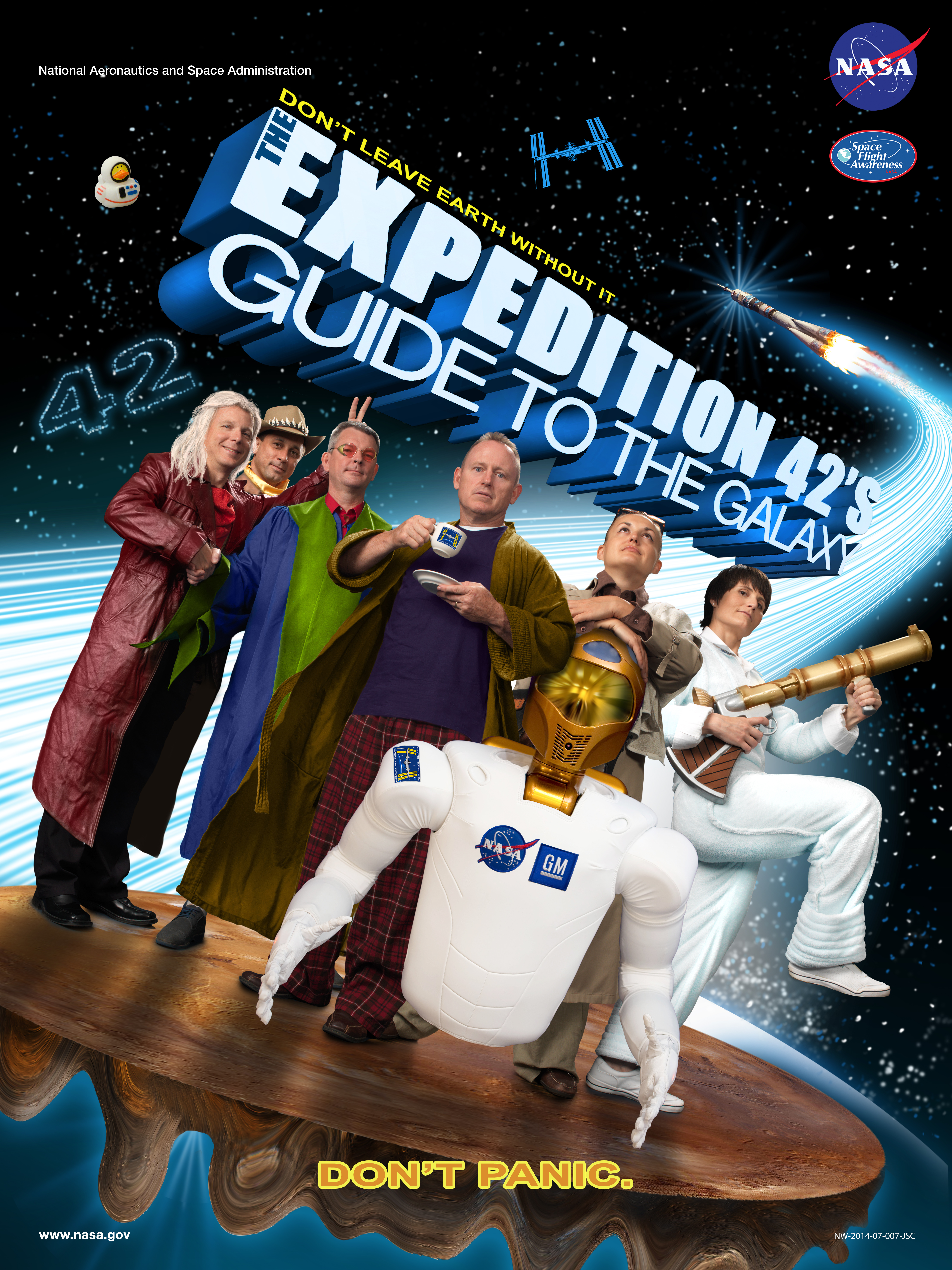 The Expedition 42 crew poster pays tribute to the comic science fiction film The Hitchhiker's Guide to the Galaxy.